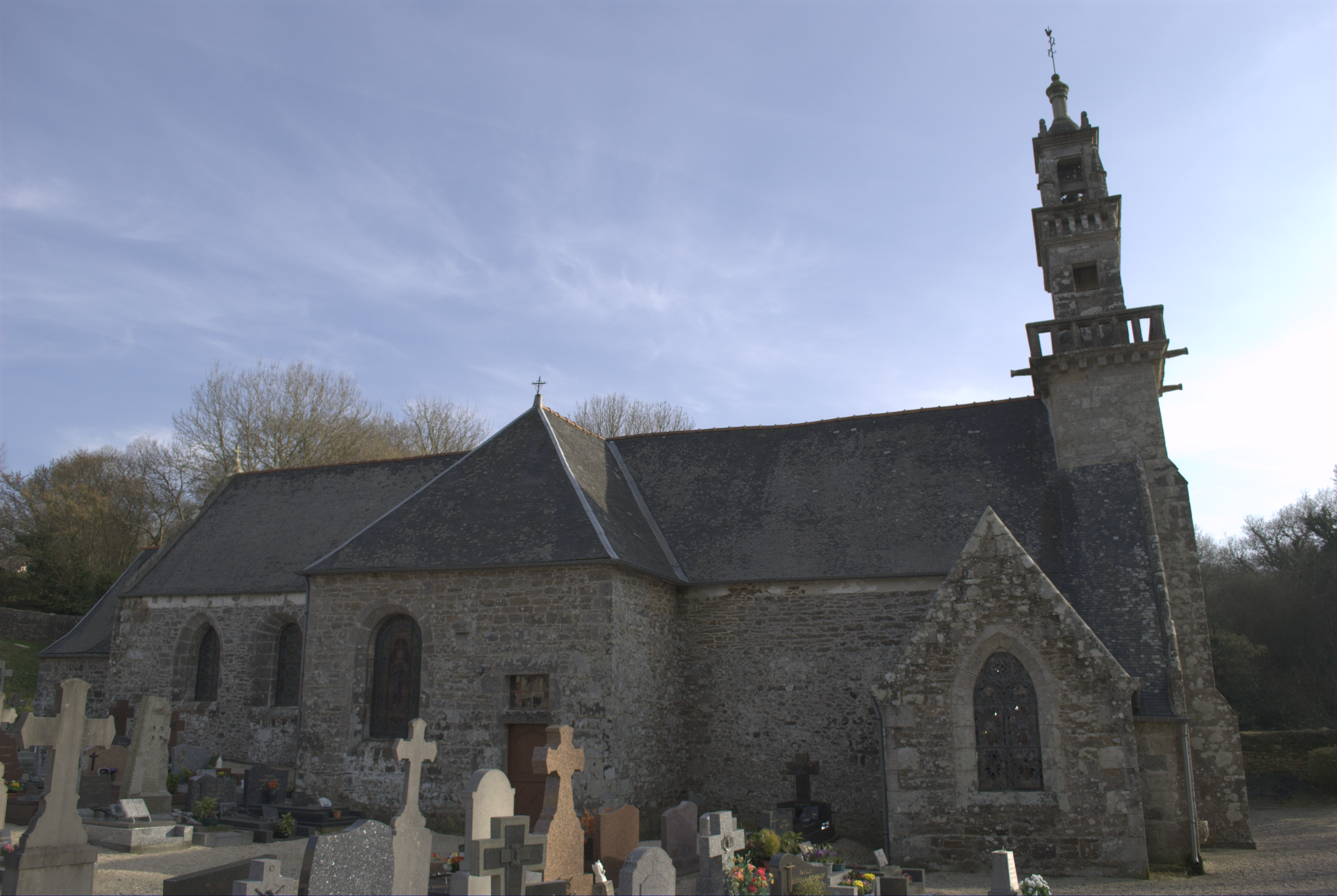 Eastern view of the Saint-Iltud Church in the village of Coadout (France).